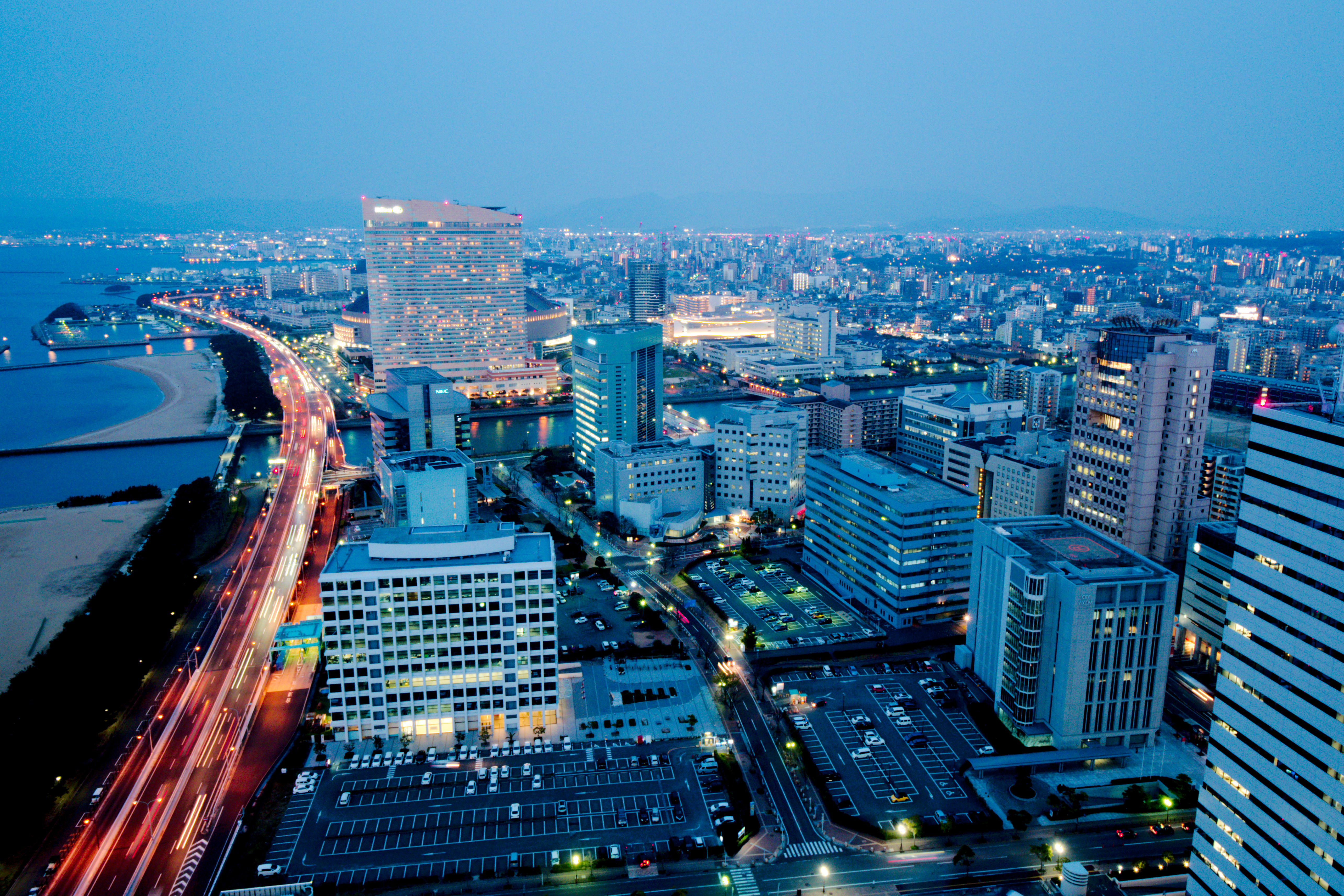 View from Fukuoka Tower at Blue Hour.